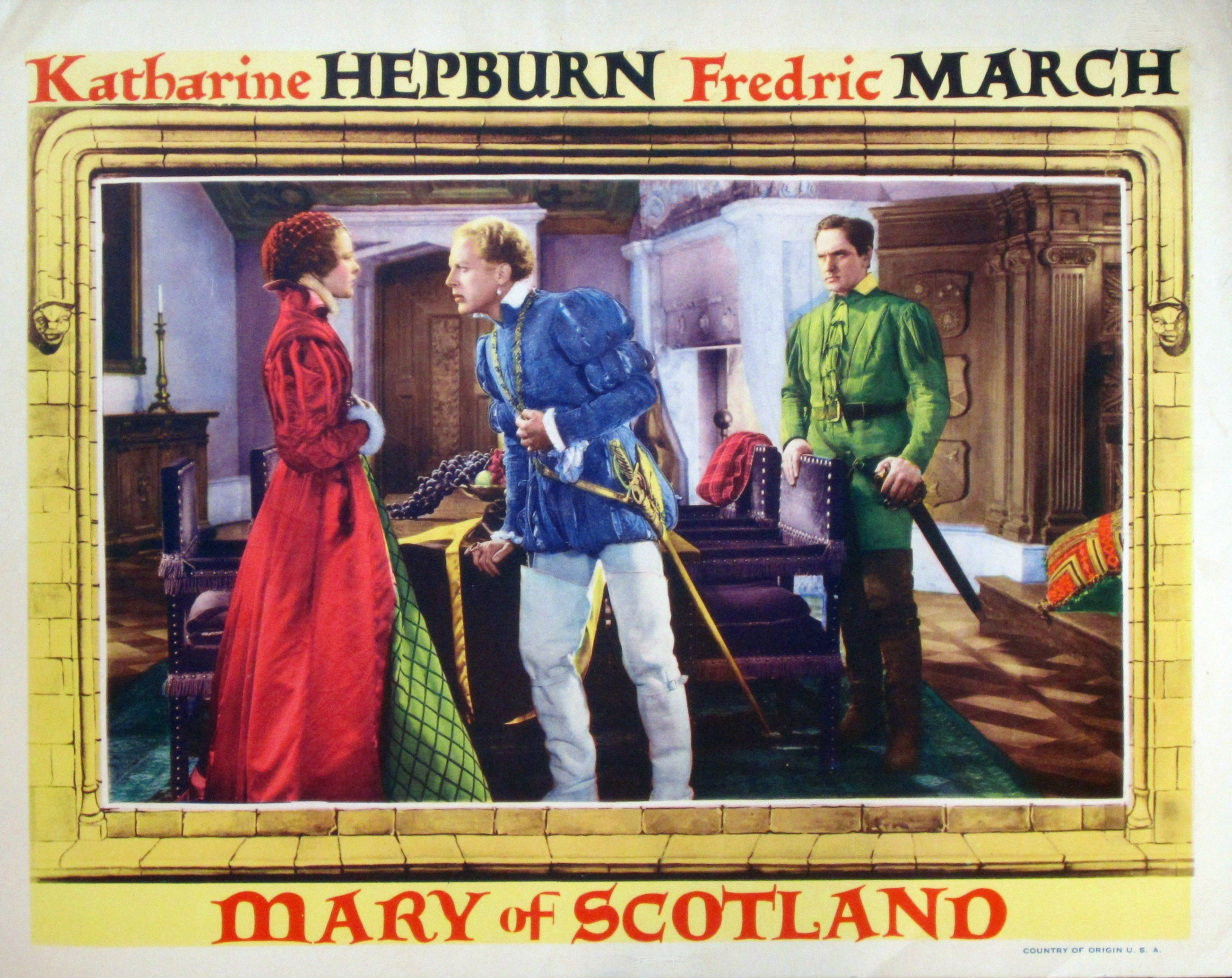 Lobby card for the American drama film Mary of Scotland (1936). L-R: Katharine Hepburn, Douglas Walton, Fredric March